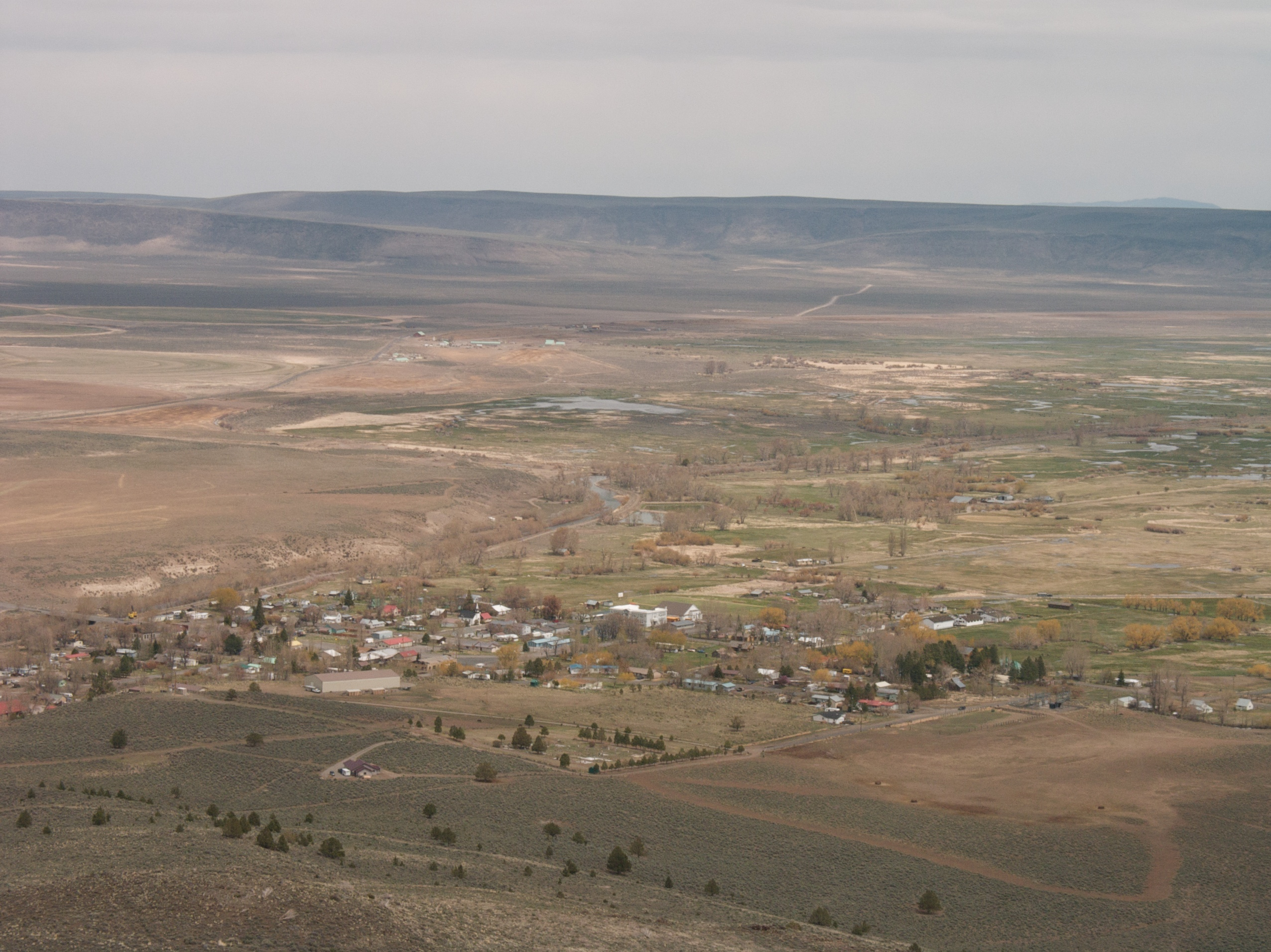 Aerial view of Paisley, Oregon, USA